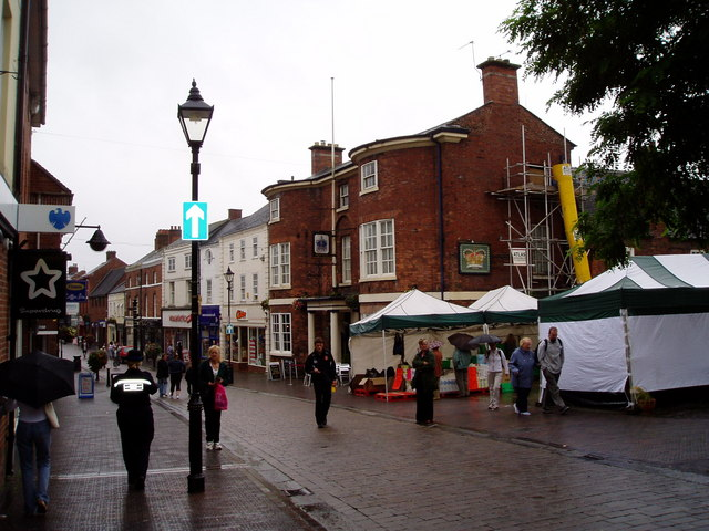 The Crown Hotel, Stone On the High street. The hotel was important as a staging post for coaches on the London-Holyhead and London-Carlisle routes and served as a mail distribution point. A room at the hotel was used by the Blessed Dominic Barberi for the 1st Catholic Mass in Stone since the Reformation, 1842, the start of the Catholic revival in Stone.